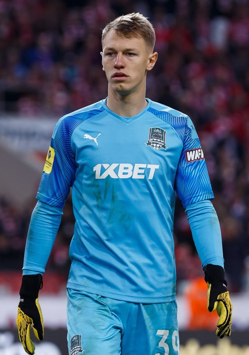 Matvei Safonov with FC Krasnodar in a game against FC Spartak Moscow.